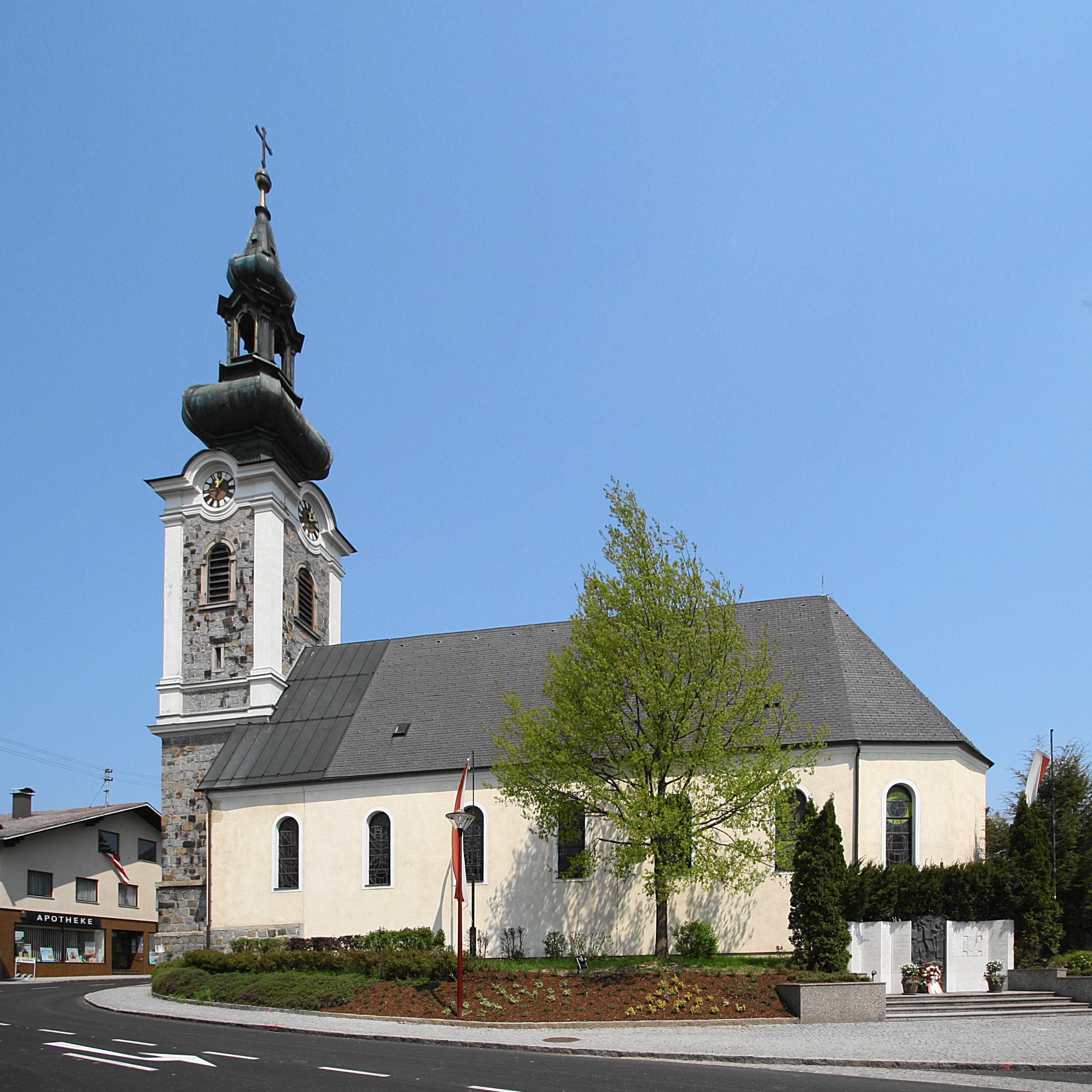 Church of Ampflwang